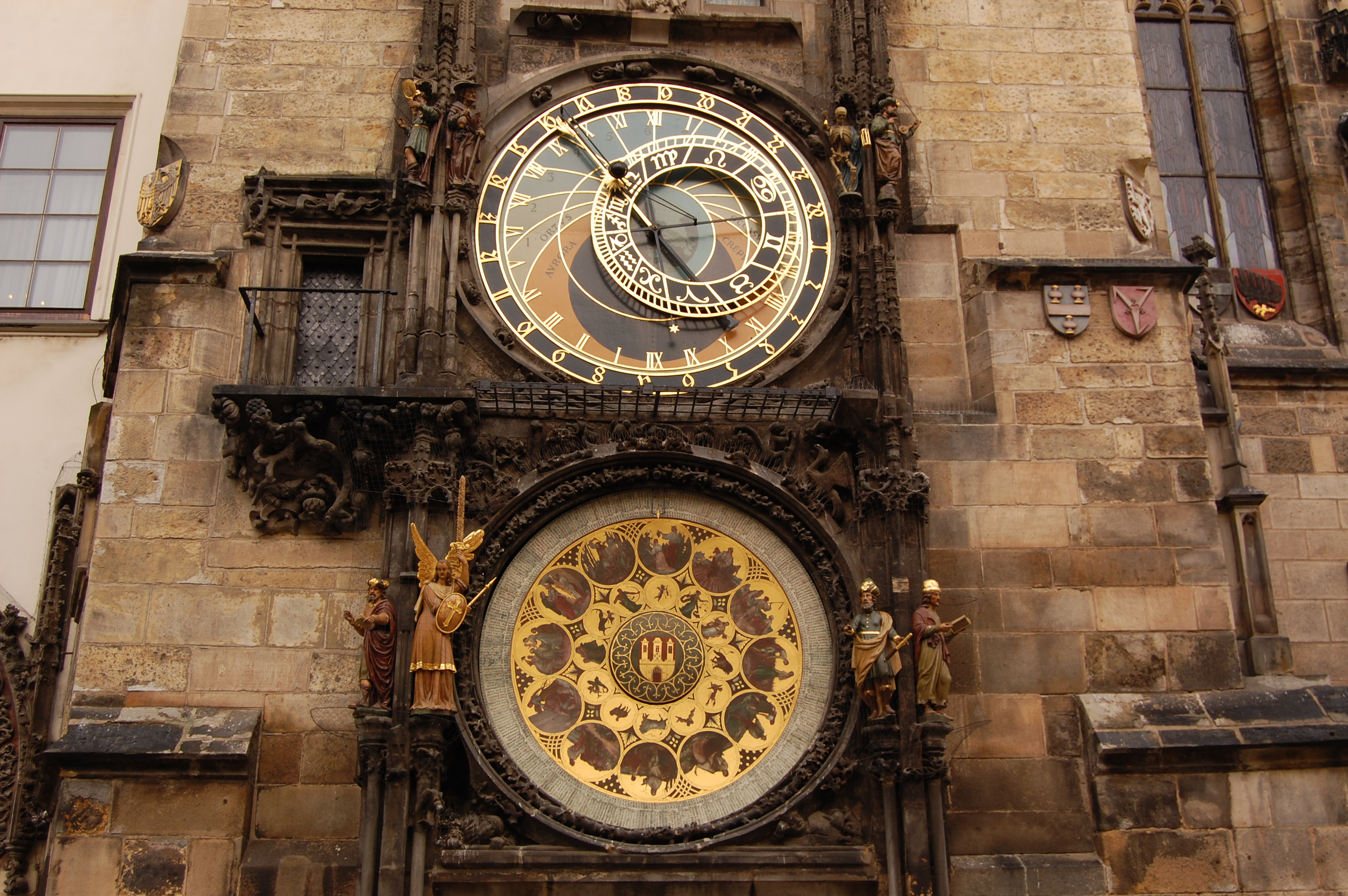 Prague Astronomical Clock